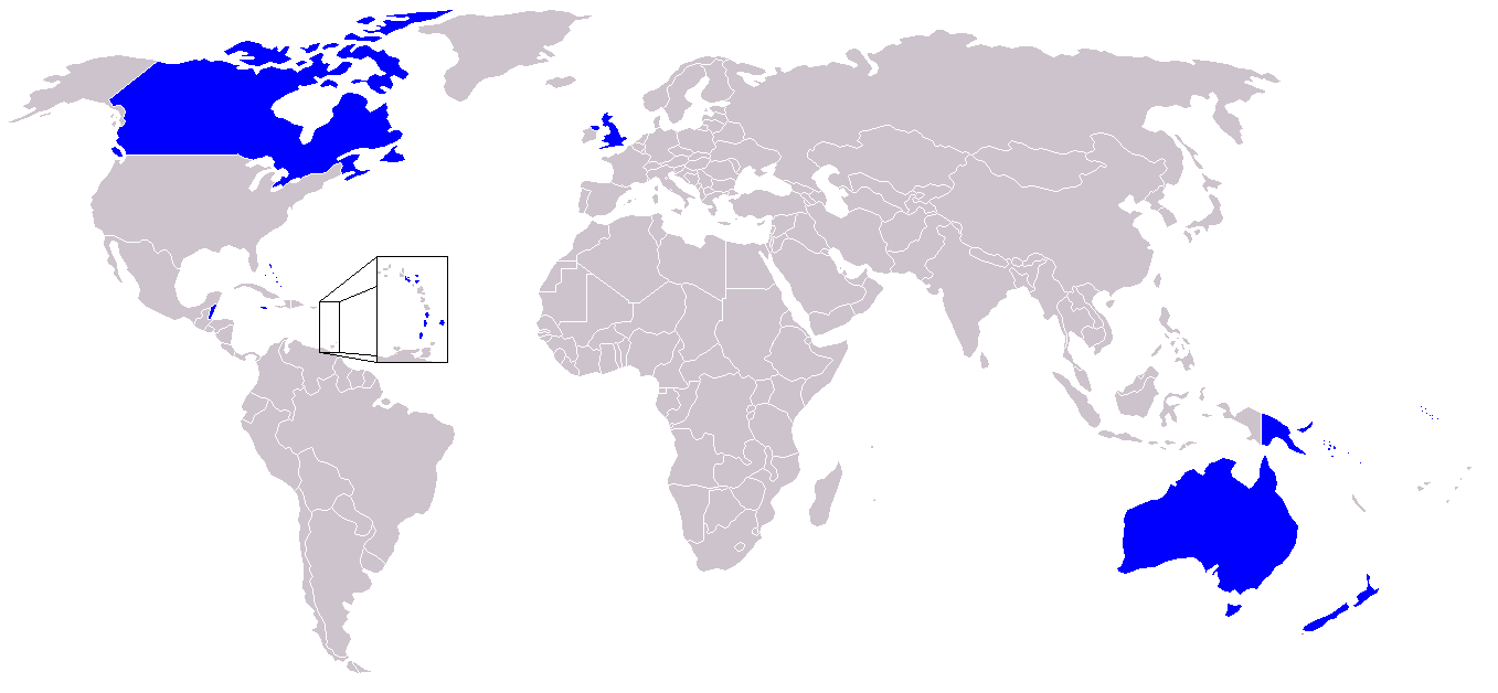 Map of Commonwealth realms (blue) as of 1993 to 2015